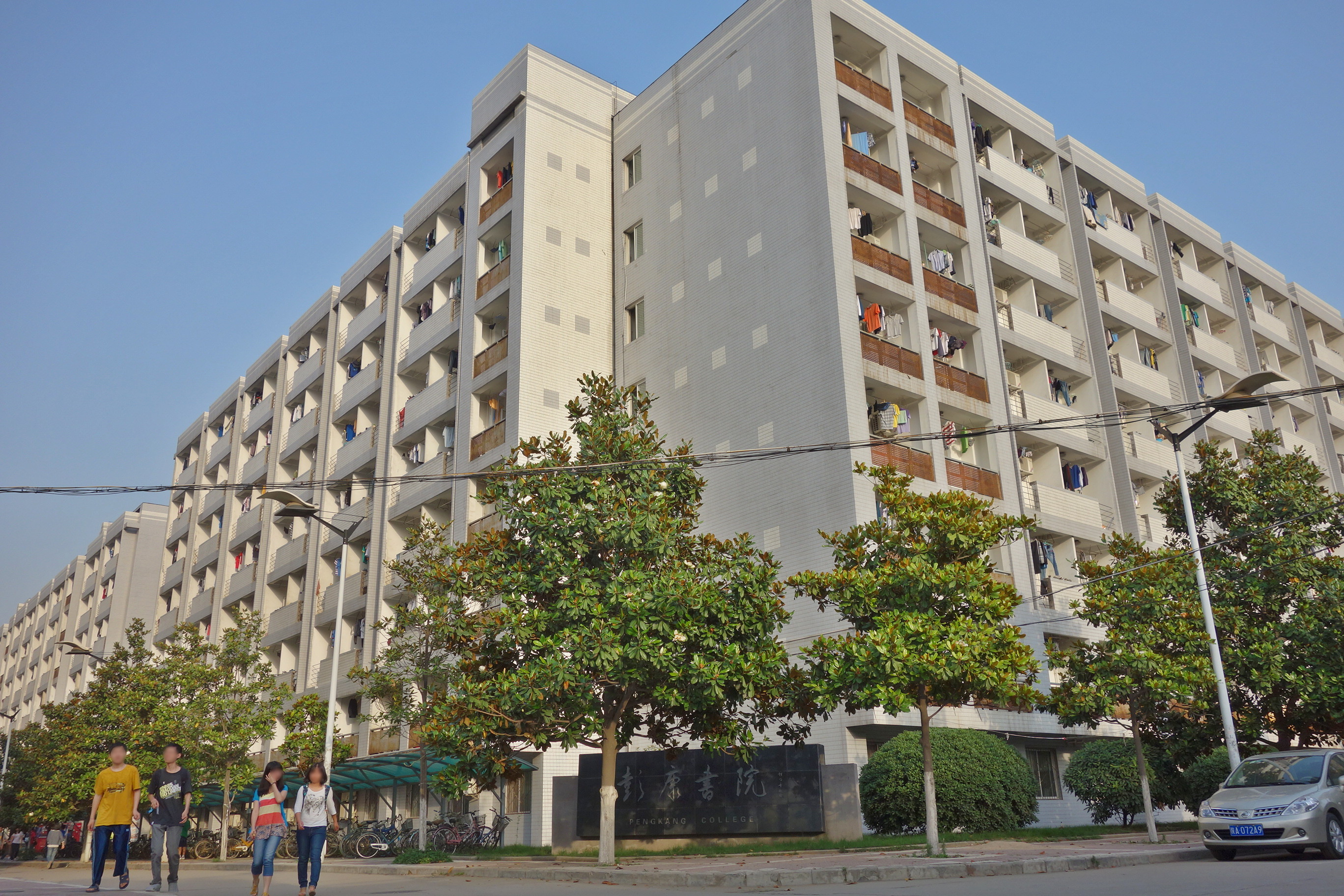 PengKang College.